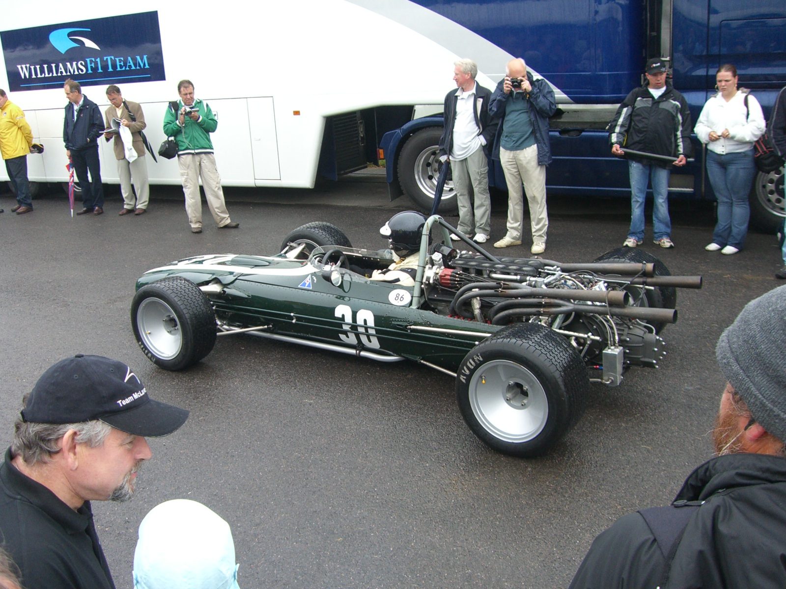 Cooper-Maserati T86, 3 litre V12 originally driven by Jochen Rindt, 1967